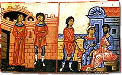 Scenes of urban life in Byzantium. Left illumination is a scene of marriage. The right illumination depicts a conversation among family members.